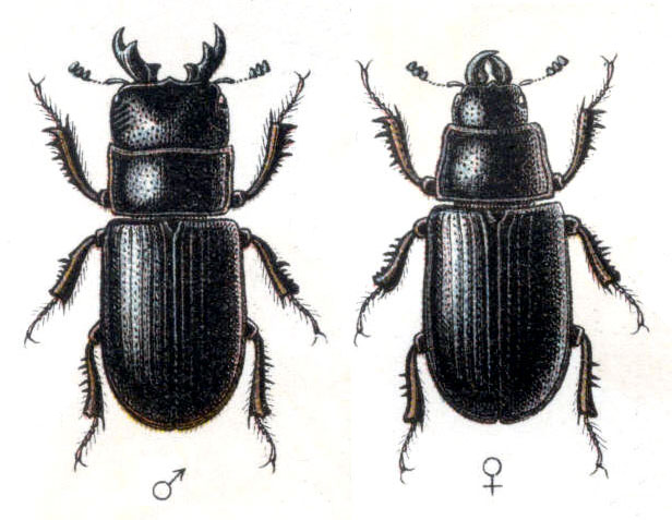 Ceruchus chrysomelinus male and female